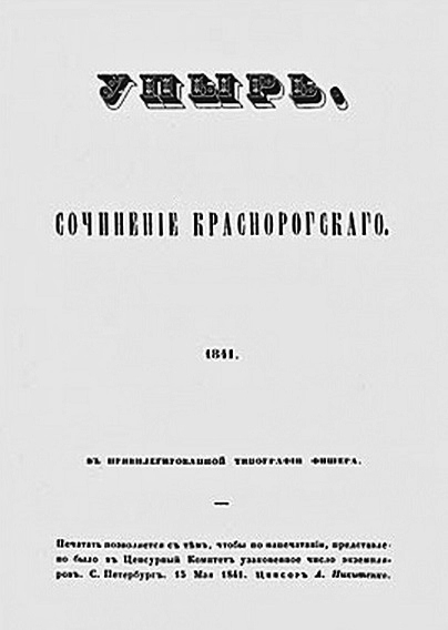 The Vampire by Tolstoy 1st ed